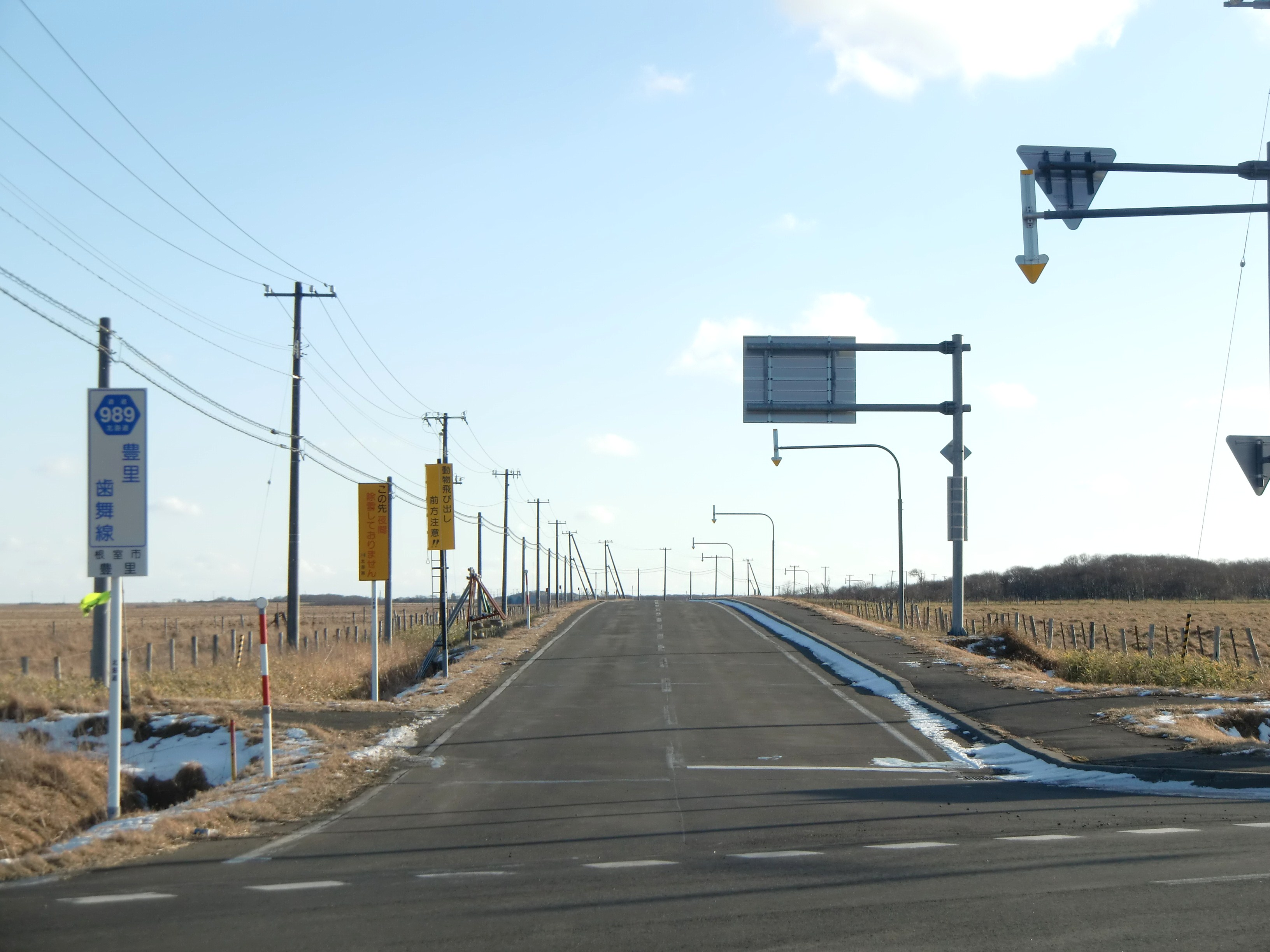 Hokkaido prefectural road 989 (Toyosato-Habomai line) in Toyosato, Nemuro city, Hokkaido, JAPAN.